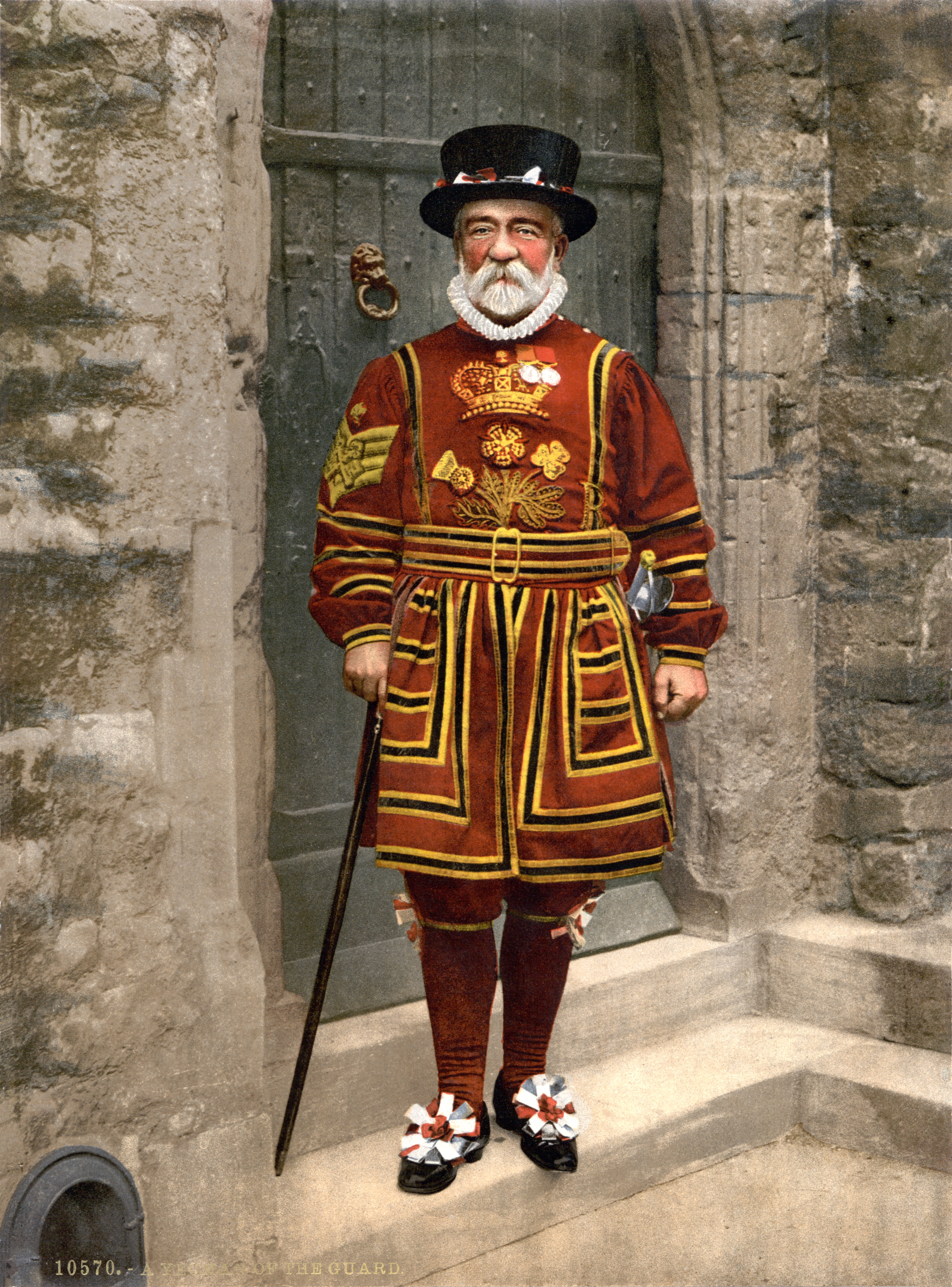 A Yeoman Warder in Tudor State Dress, from a series of Photochrom prints created by the Detroit Publishing Co. between about 1890 and 1900. Although the image makes the common mistake of calling him a Yeoman of the Guard, the Library of Congress clarifies him as a Beefeater, a.k.a. a Yeoman Warder.